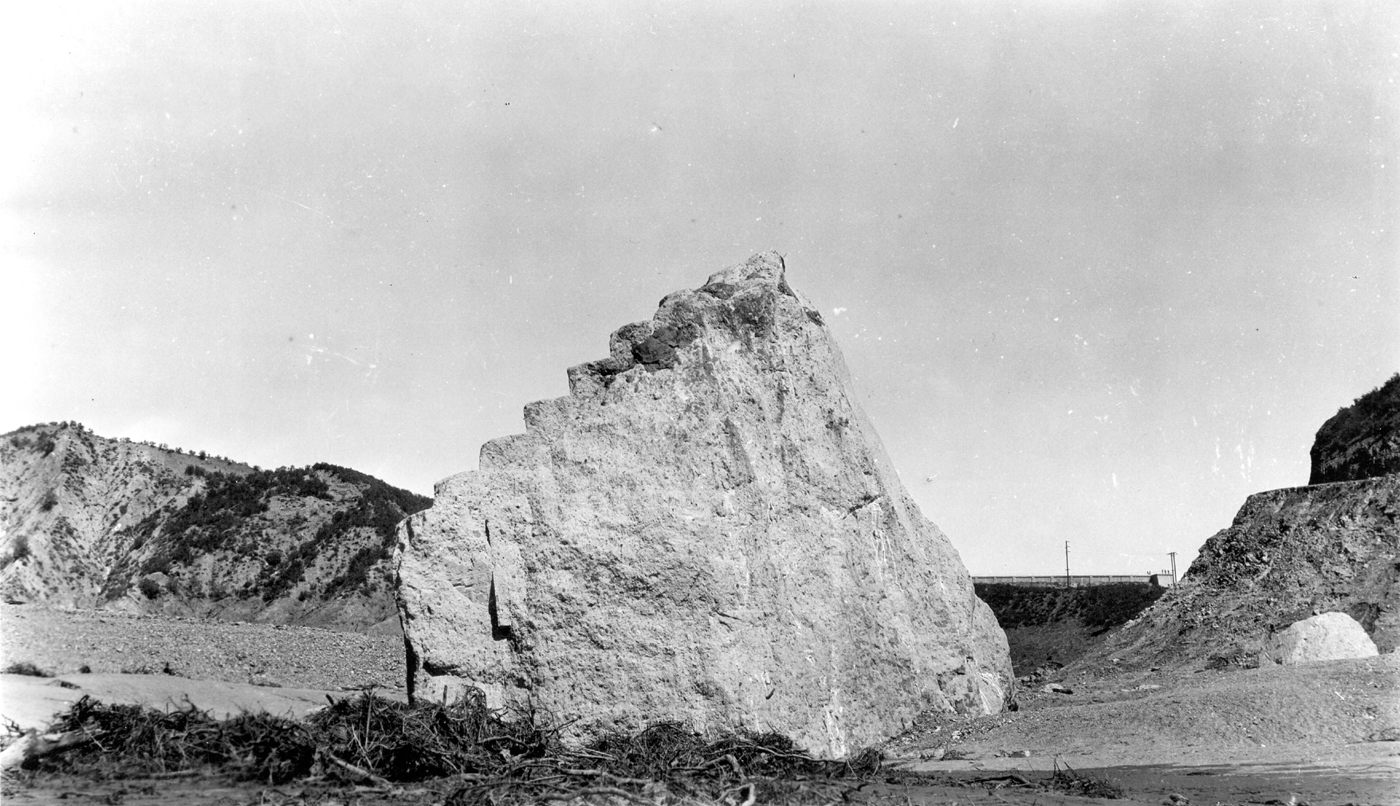 St. Francis Dam Flood March 12-13, 1928, Los Angeles County, California. Huge concrete block from the west abutment of the dam about half a mile below the dam. The block is approximately 63 feet long, 30 feet high, and 54 feet wide. Note the dam wing wall in the distance. March 17, 1928.